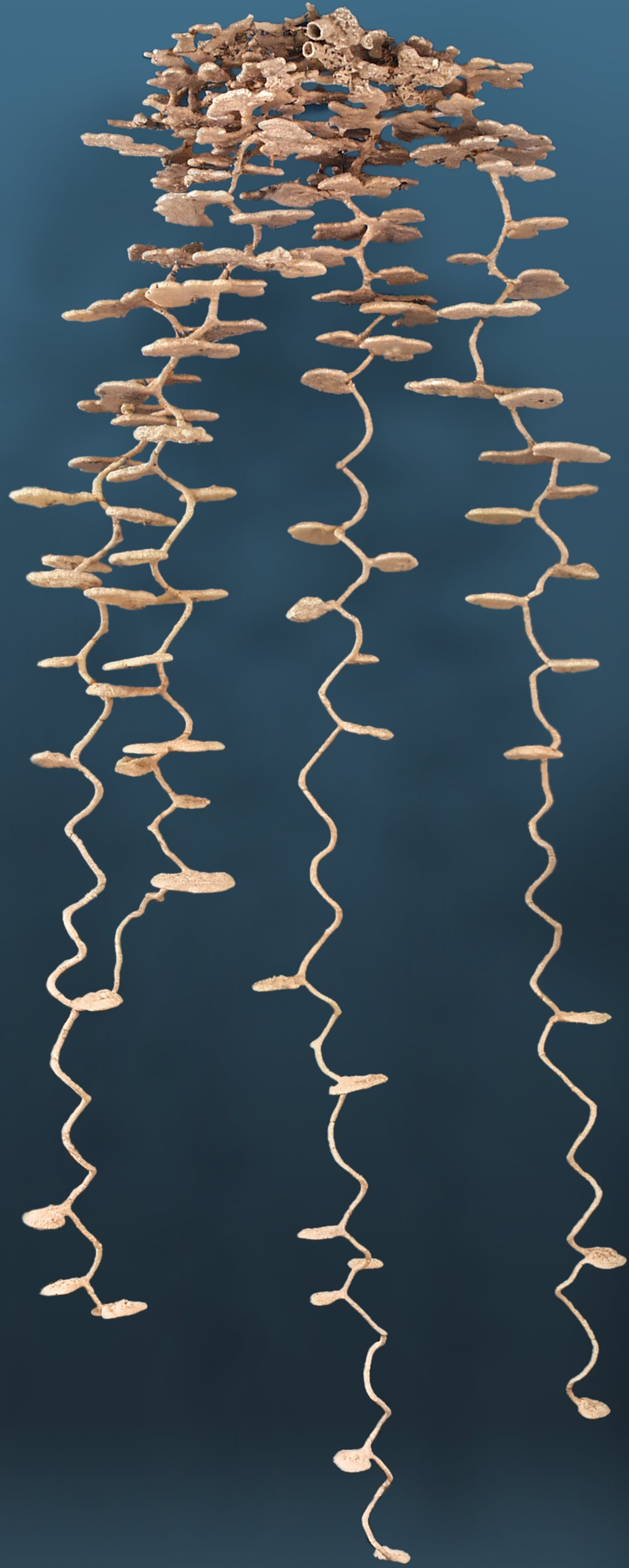 The nest architecture of the Florida harvester ant, Pogonomyrmex badius